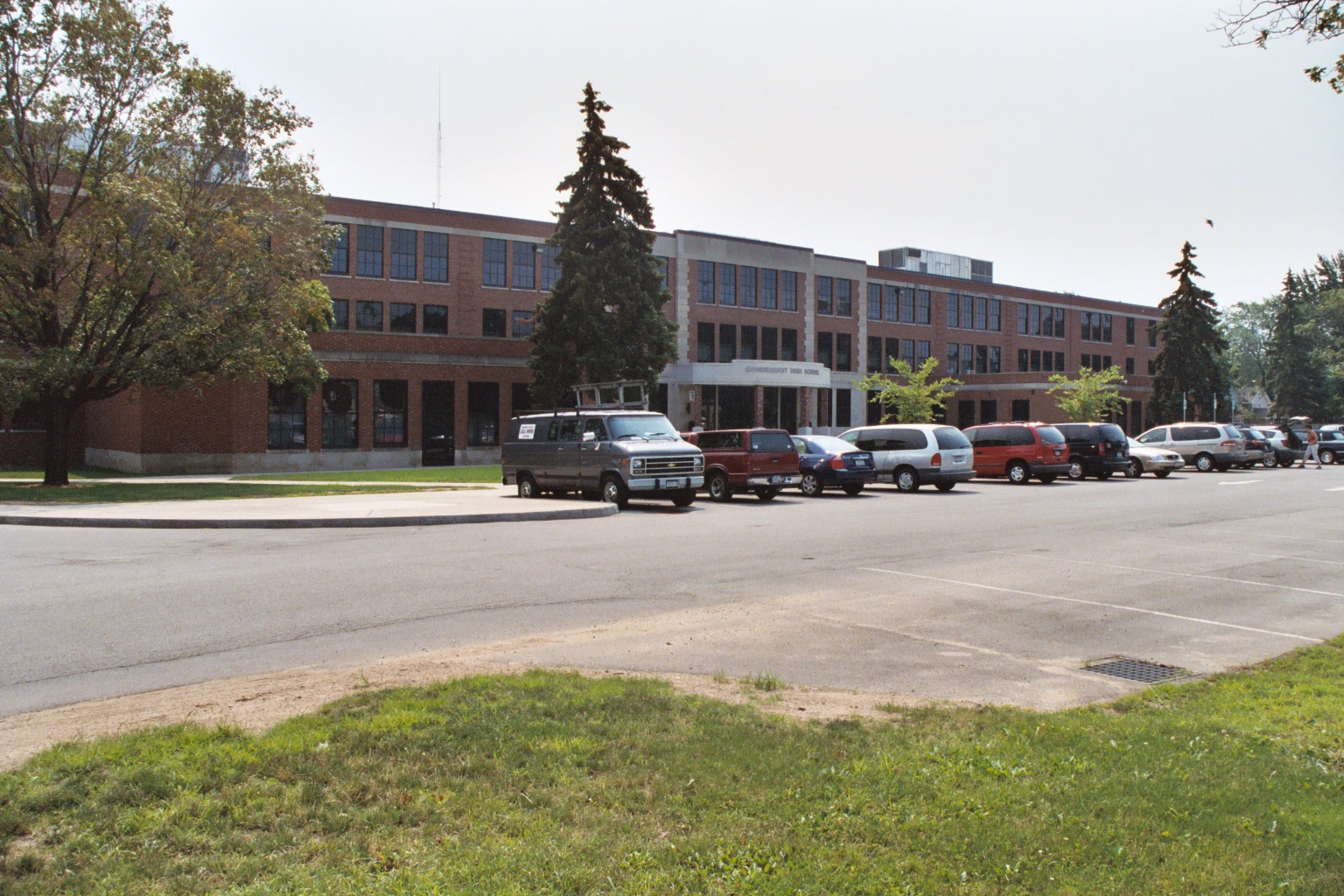 Personal photo, taken at Irondequoit High School in Irondequoit, New York, in August 2006.